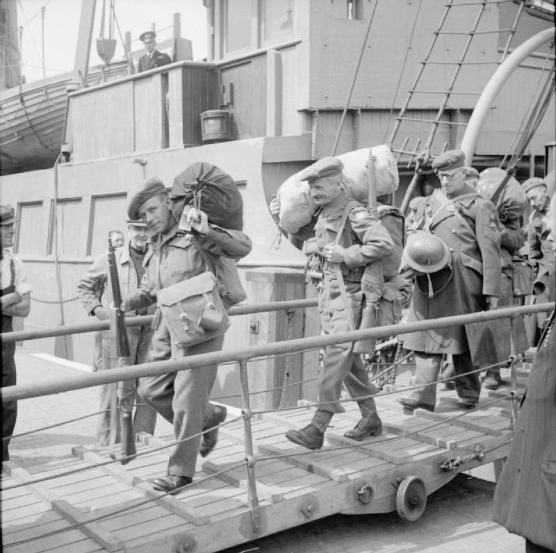 Demobilisation of the British Army At Dover, Private Bill Krepper (middle) of the Pioneer Corps disembarks from a troopship.